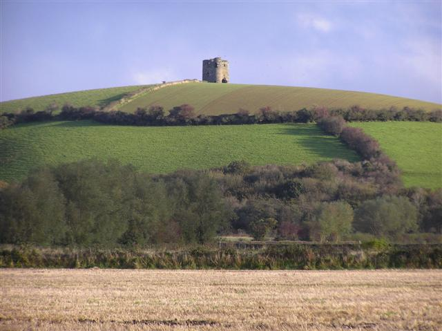 Burt Castle Zooming i n for a closer look from Coney Island